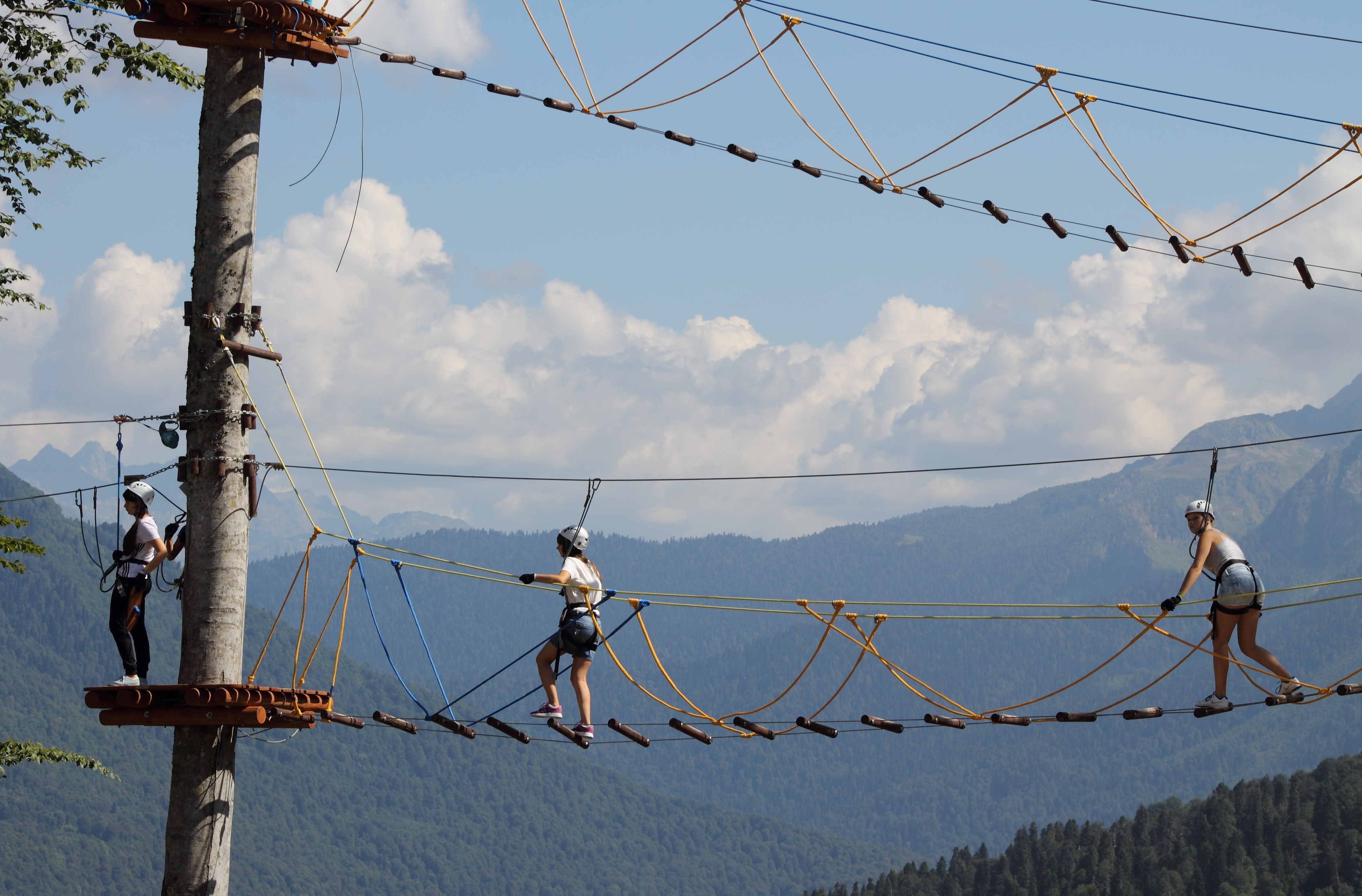 Adventure park — PandaPark at alpine resort Rosa Khutor in Krasnaya Polyana, near Sochi.